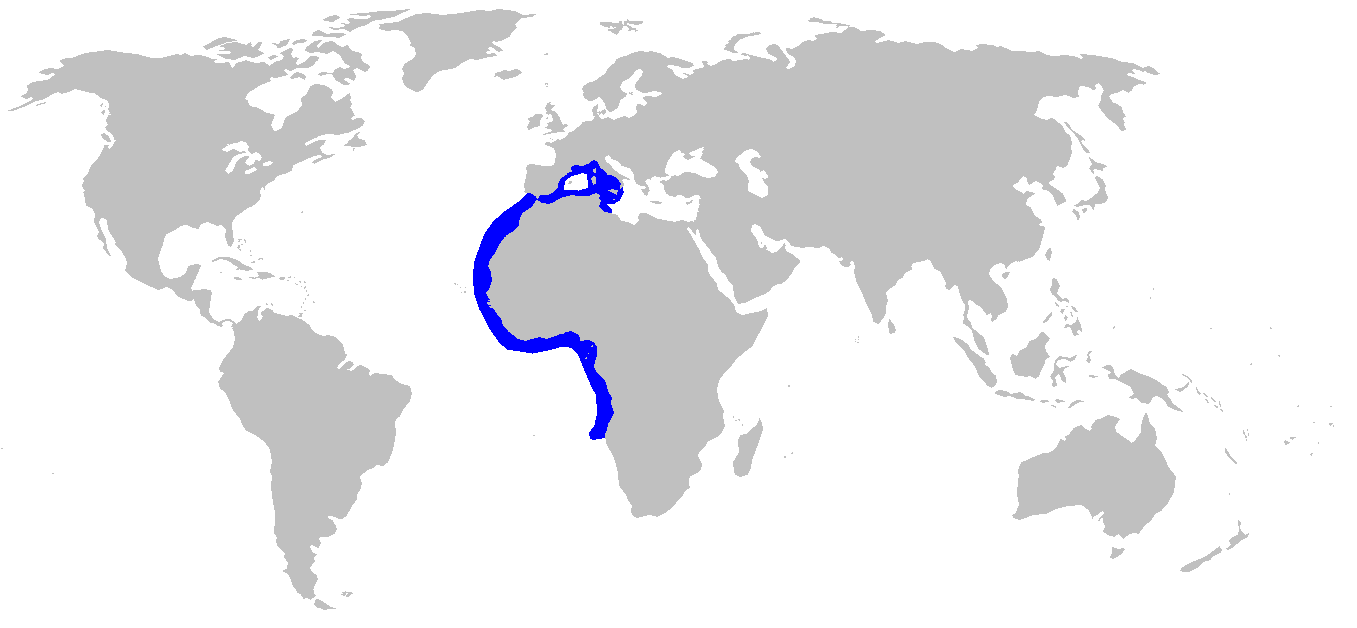 Distribution map for Squatina aculeata